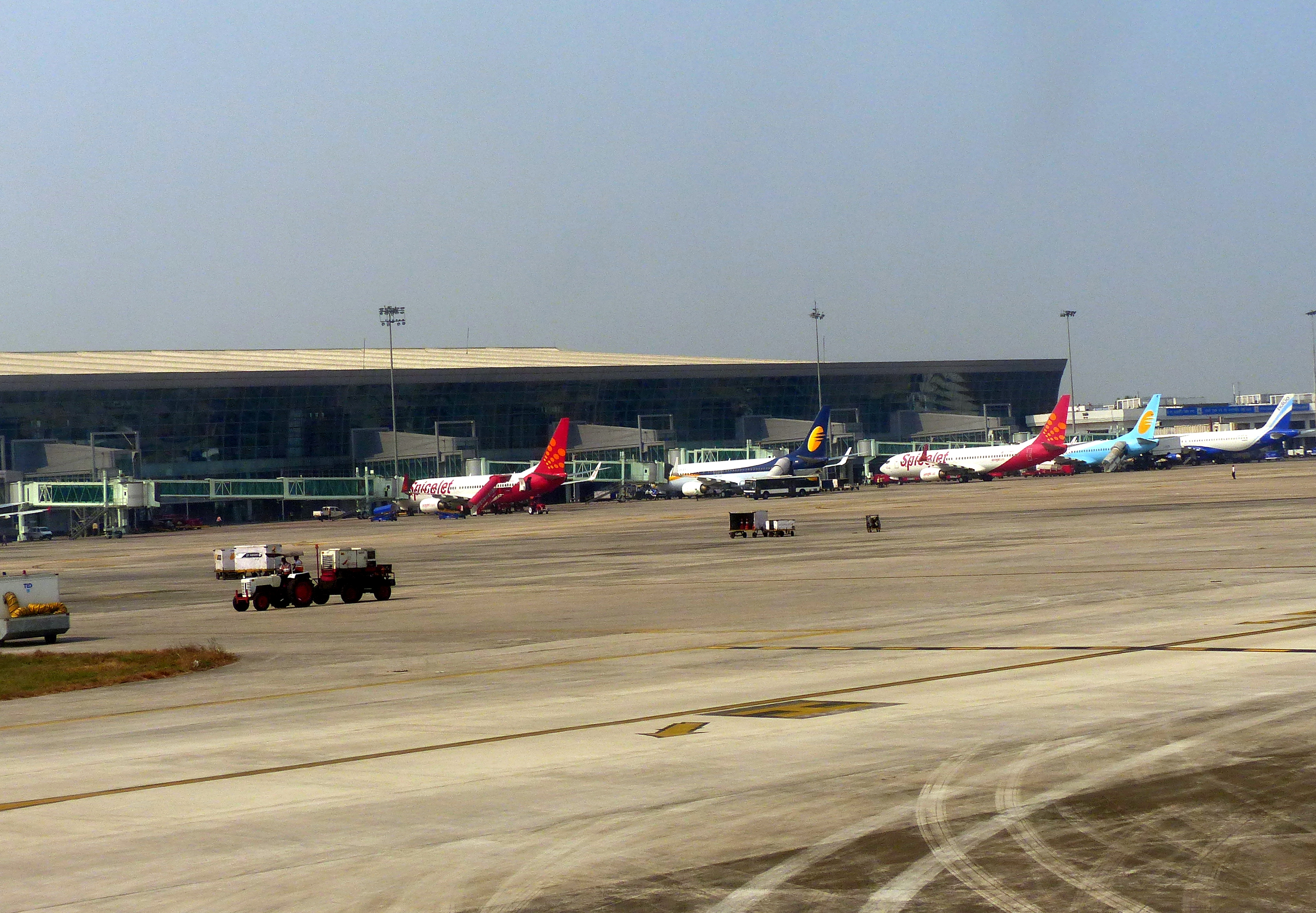 New Kolkata Airport Terminal